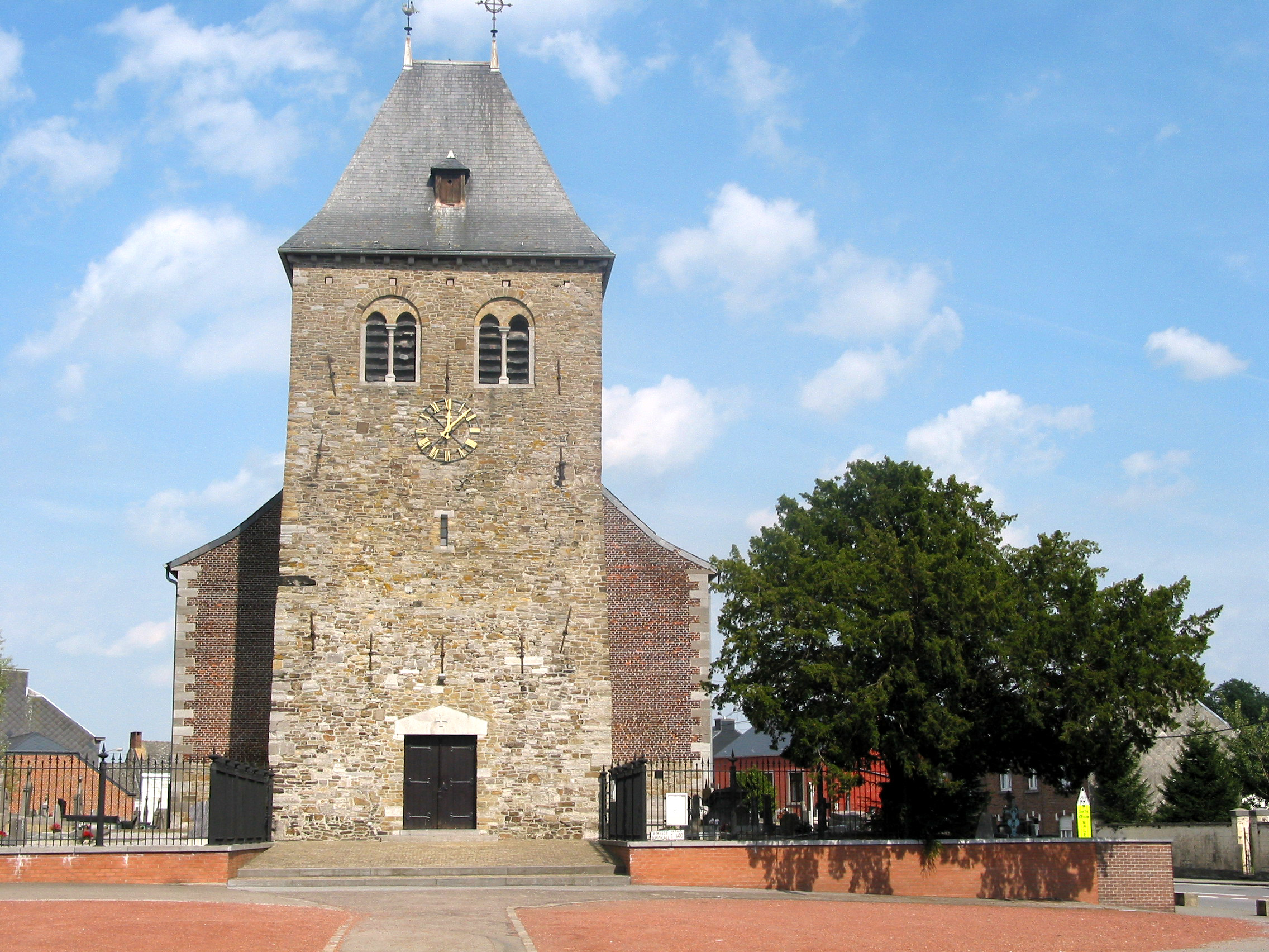 Saint-Denis (Belgium), the St. Denis church (XVIIIth century – Romanesque tower).